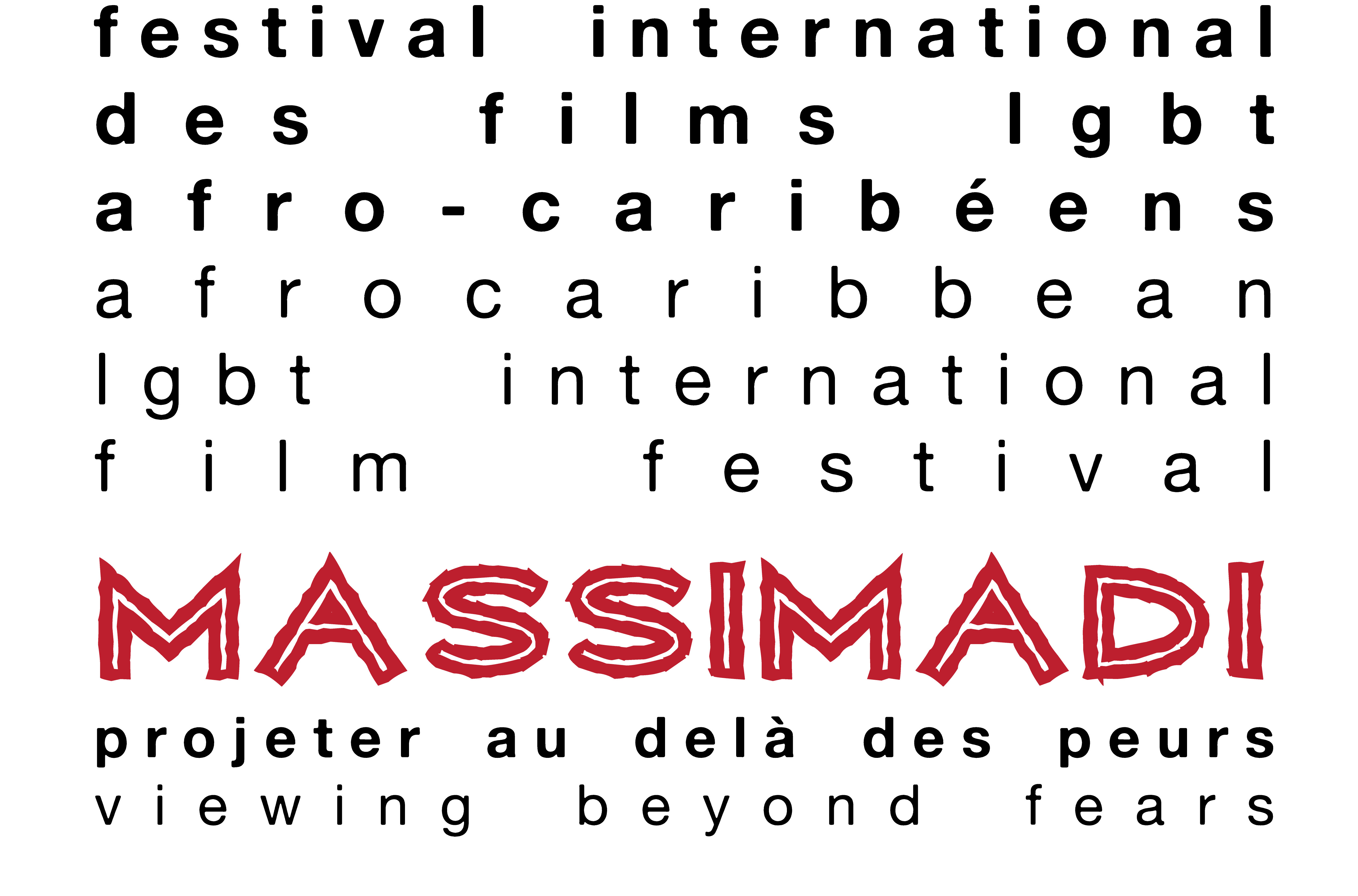 Logo of the Massimadi film festival